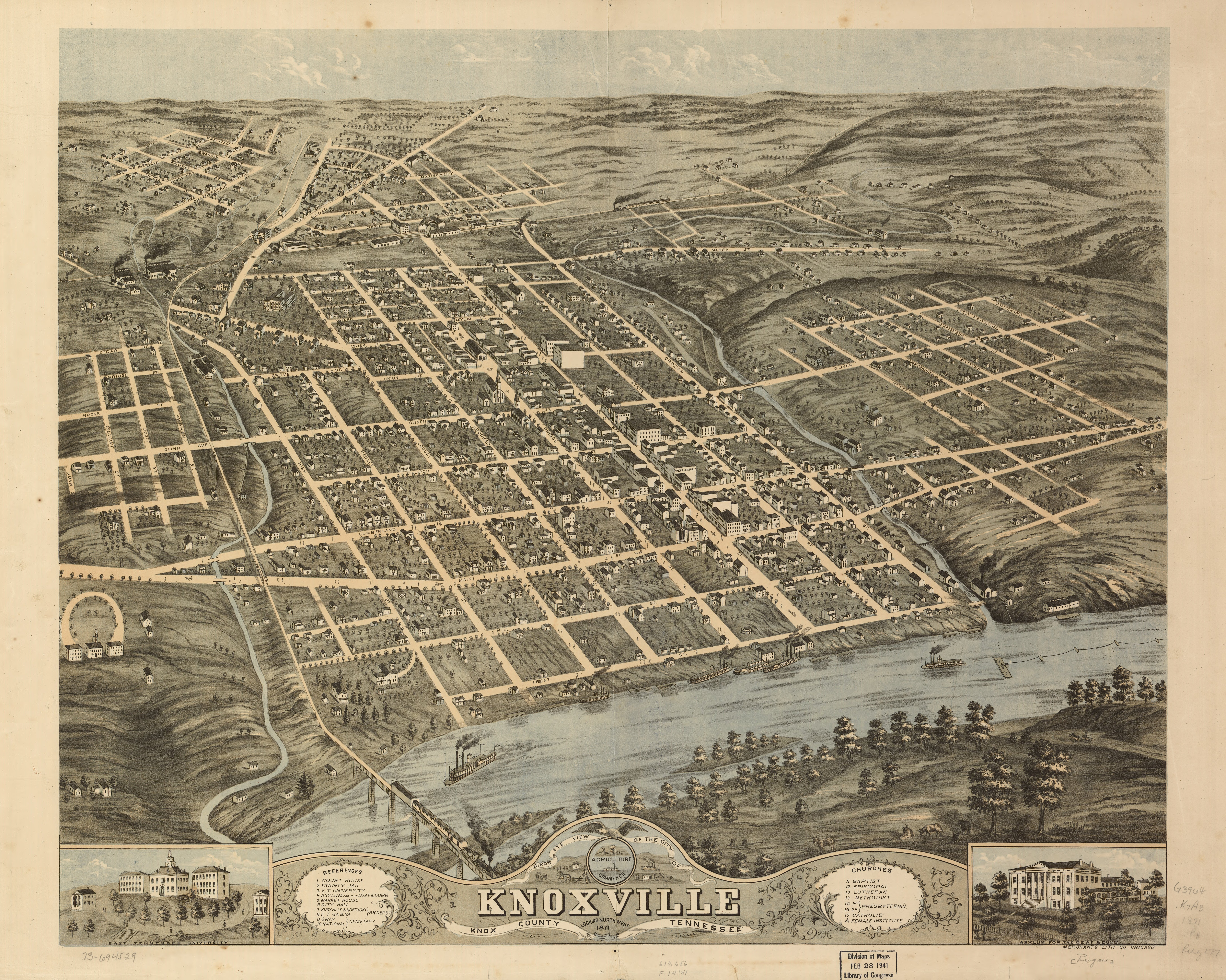 "Bird's Eye View of the City of Knoxville, Knox County, Tennessee, 1871," a map of Knoxville, Tennessee, USA, published in 1871.